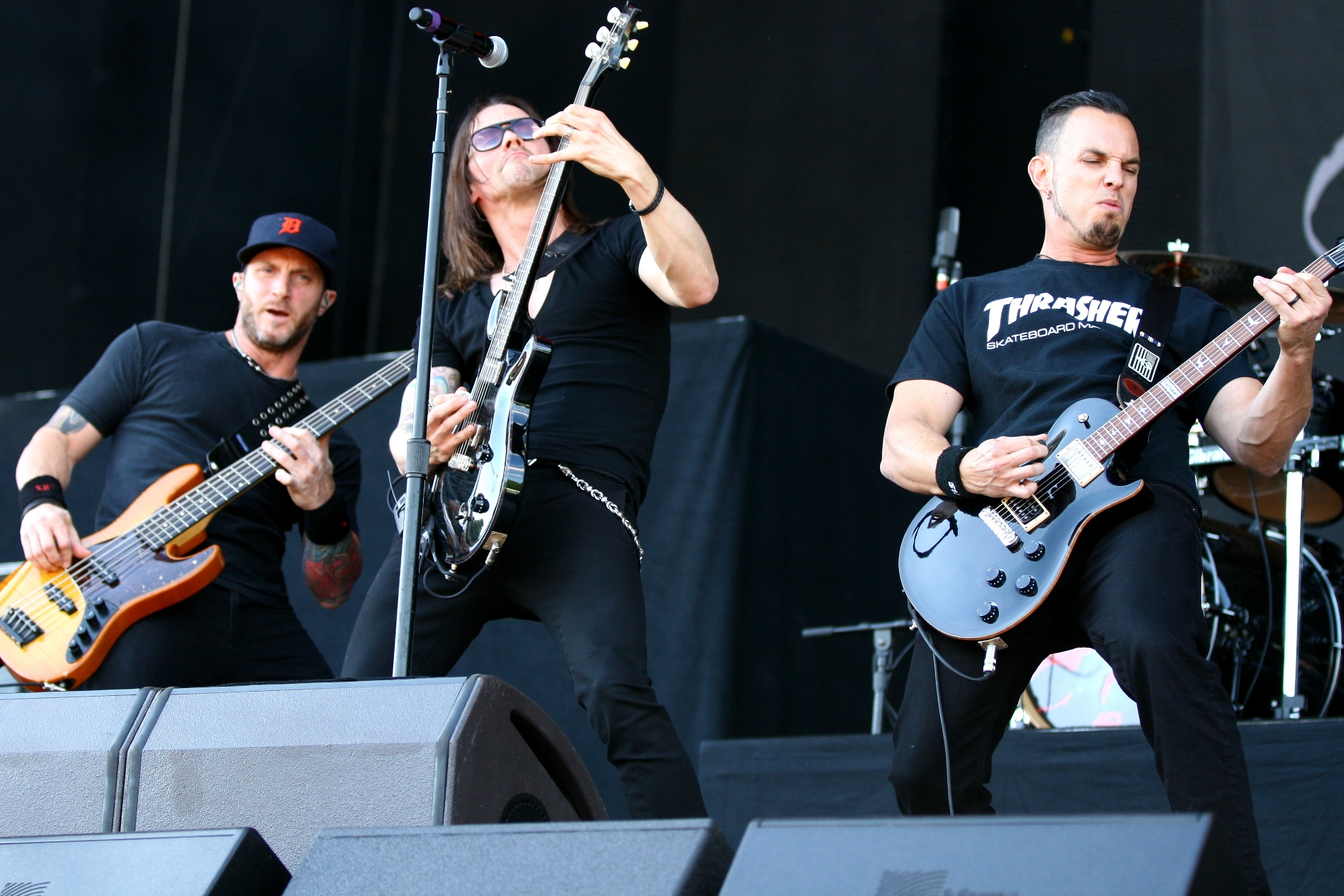 Alter Bridge on the Centerstage of Rock im Park Festival 2014. Festivalsommer This photo was created with the support of donations to Wikimedia Deutschland in the context of the CPB project "Festival Summer".